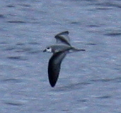 Black-winged Petrel (Pterodroma nigripennis) From Savusavu to Taveuni Ferry, Fiji Isles